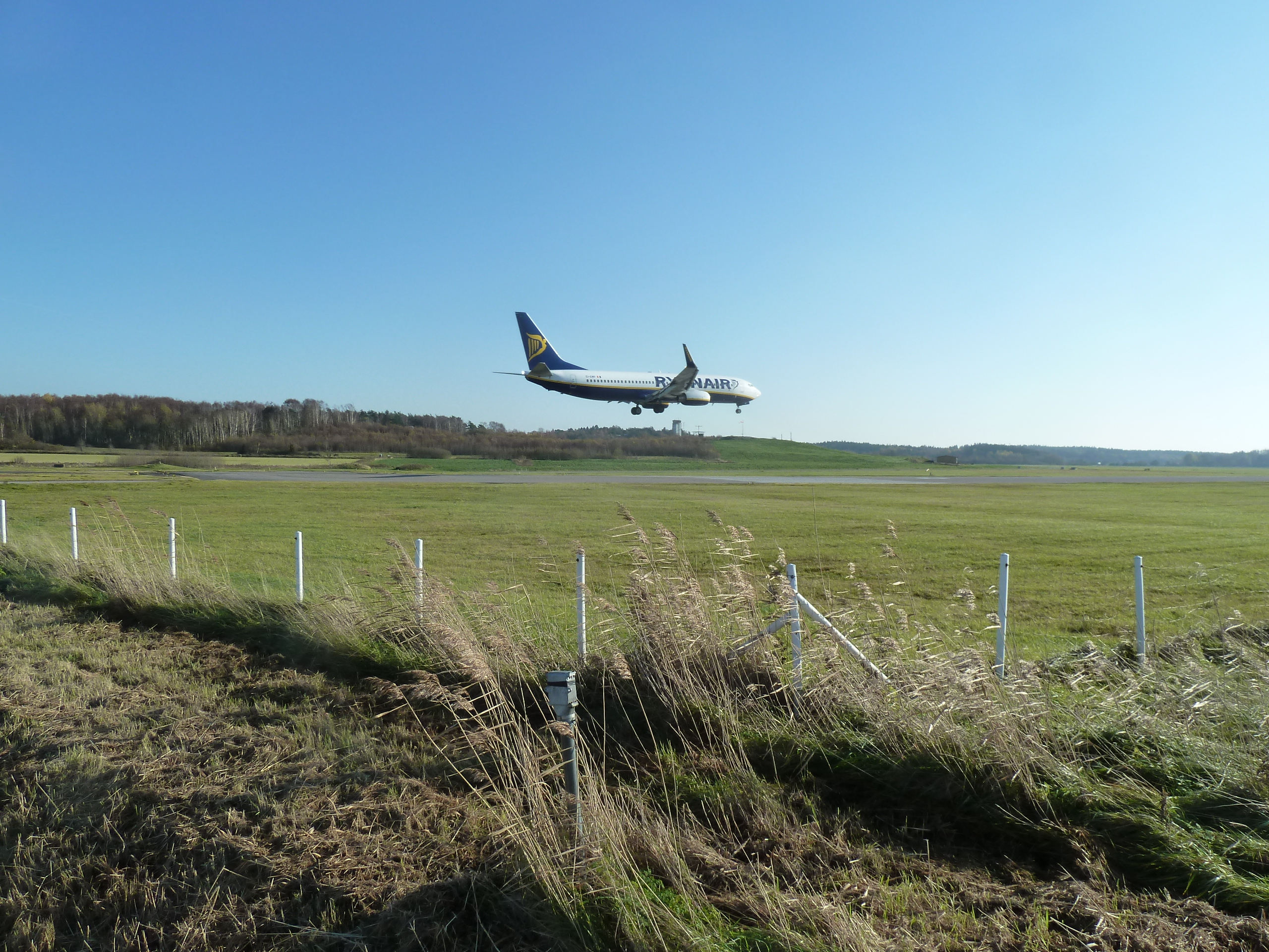 A Ryanair plane at Göteborg City Airport, from Charleroi